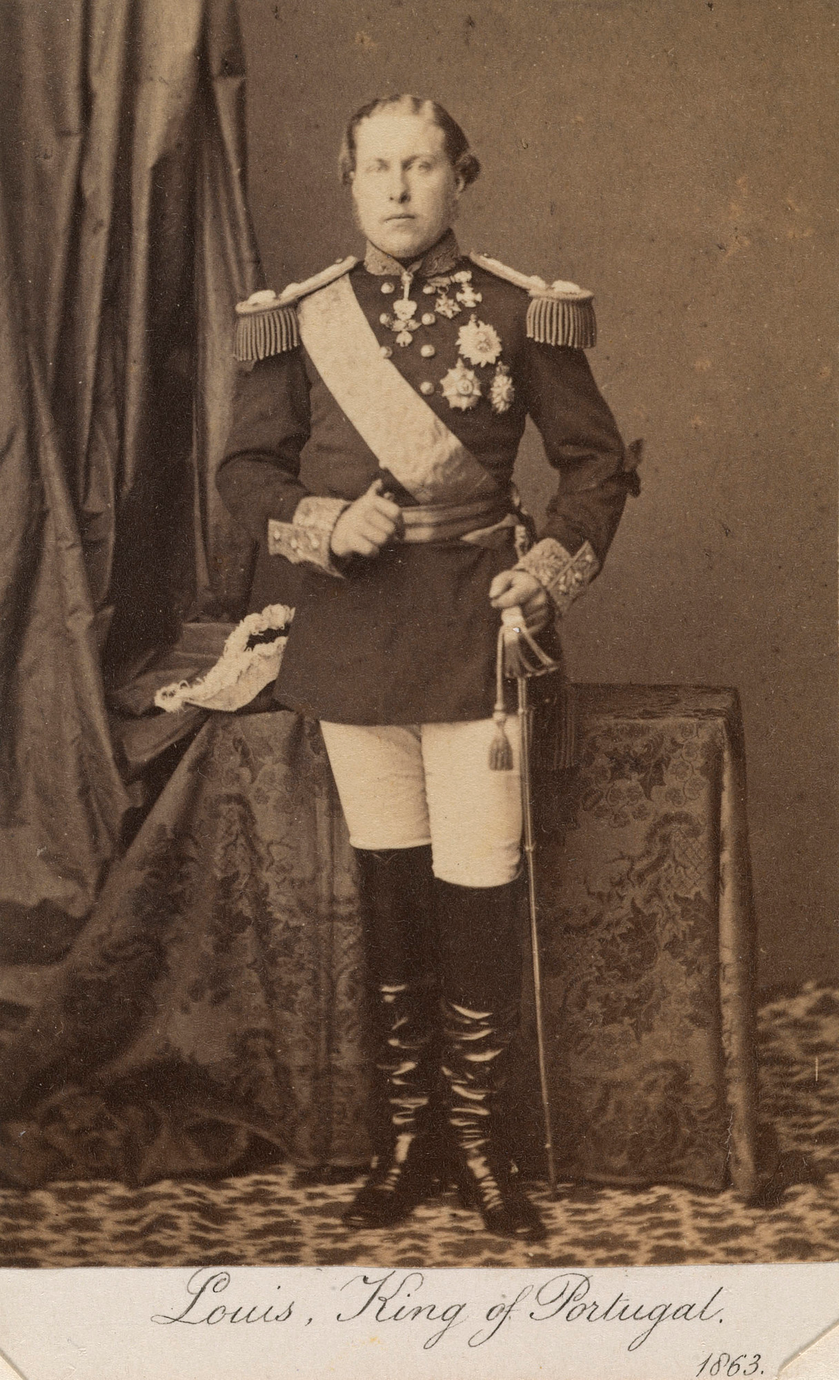 Louis I, King of Portugal